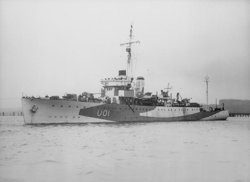 HMS BRIDGEWATER